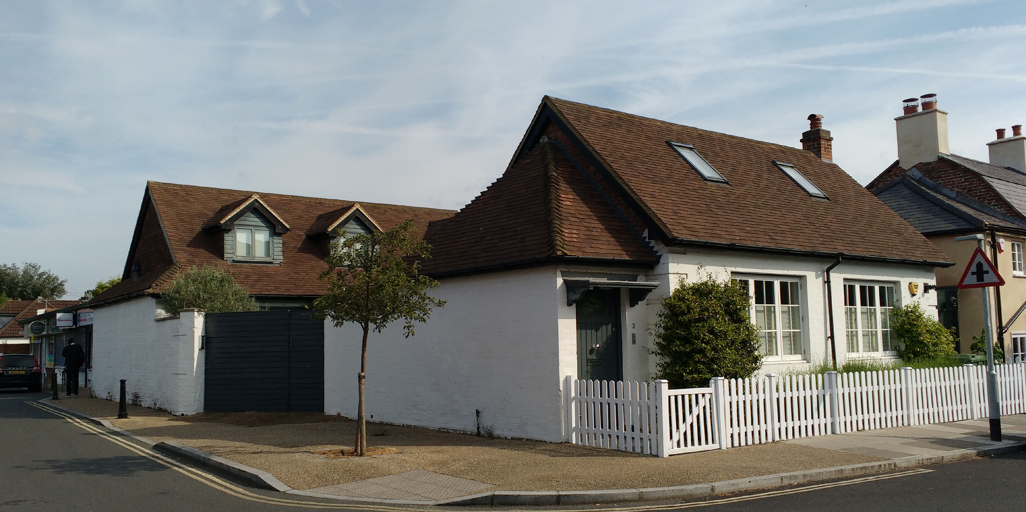 Ham, Lock Road. The former Ham Urban District Council offices and later the rent office. Now a private home. Ham Urban District existed 1894 to 1933. The room at the front was the council boardroom.